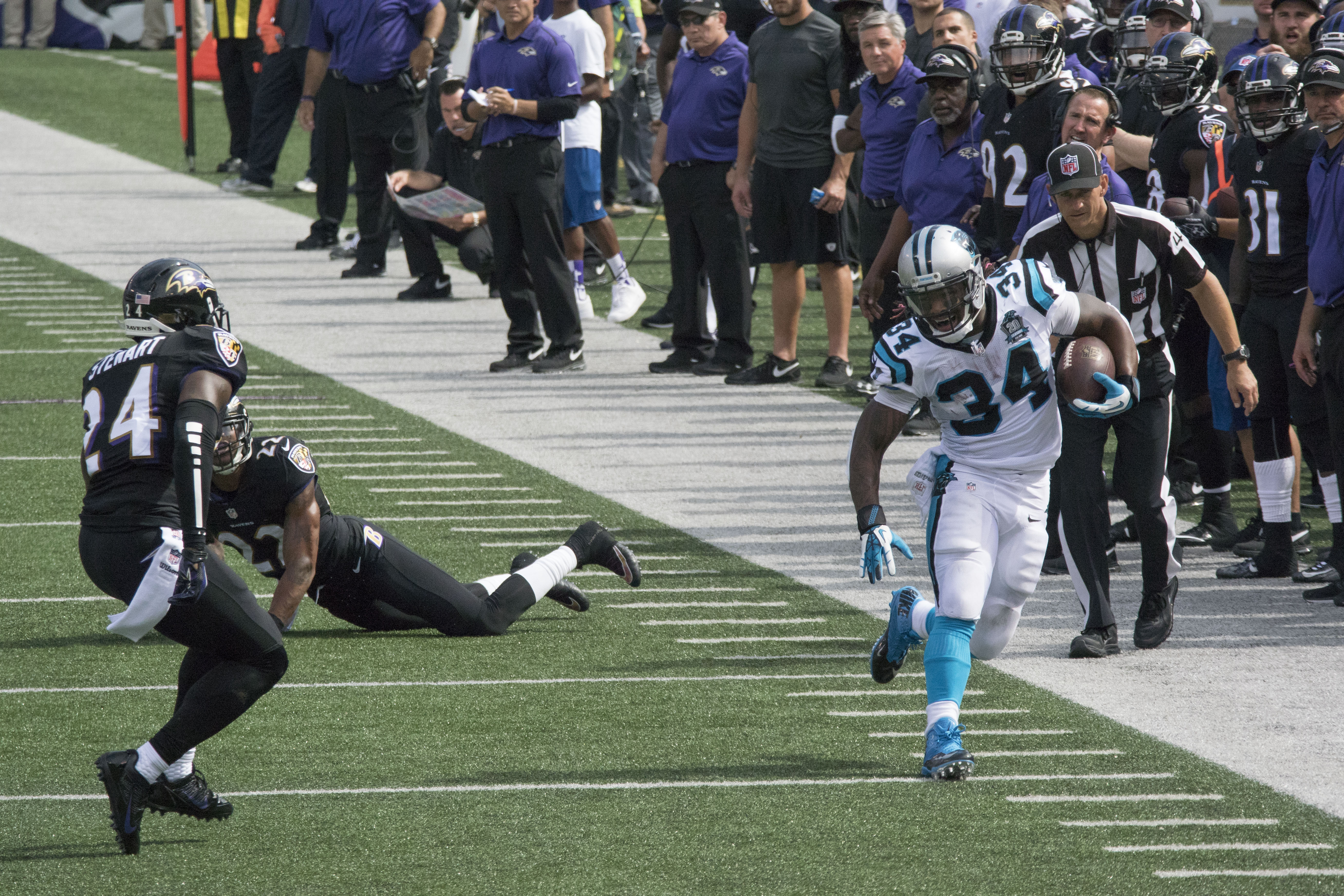 Panthers at Ravens 9/28/14